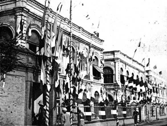 Image from Planche 1, La Chine à terre et en ballon.